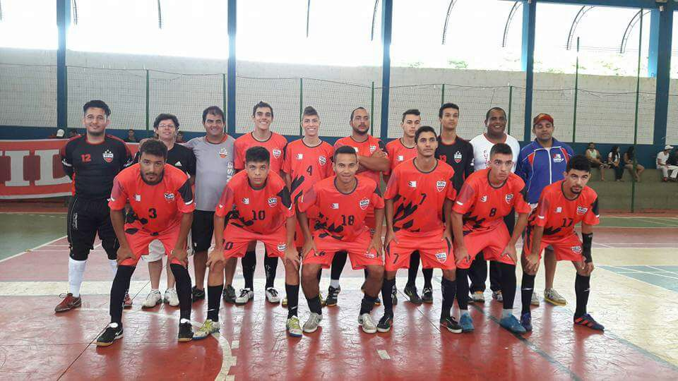 Vilense, champion of the Friendship Tournament in the Poliesportiva Quadra Professor Daniel Barbosa.